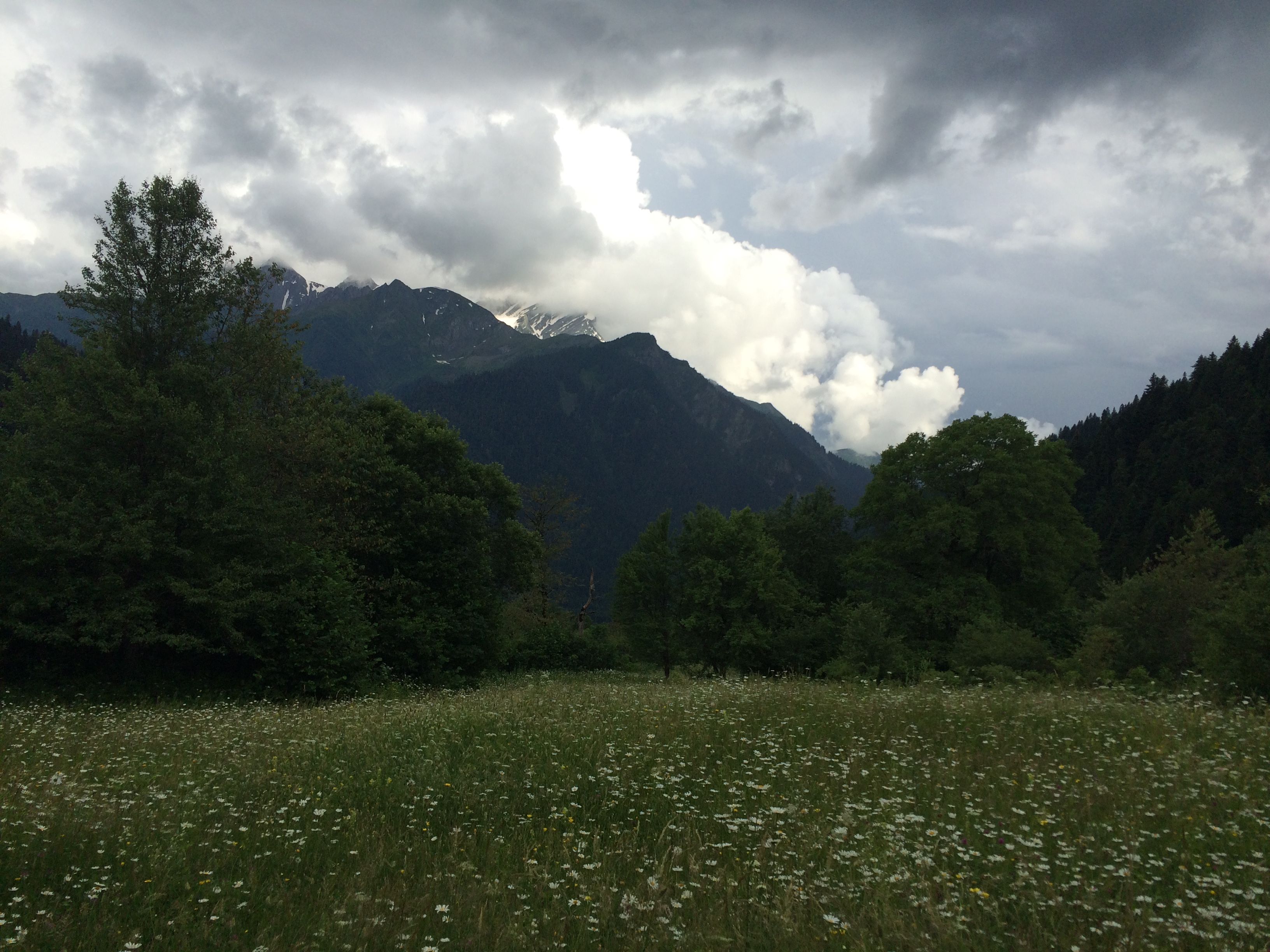 Racha mountains, Georgia